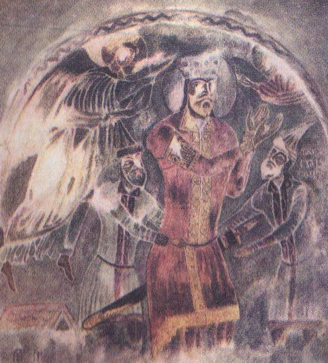 The Coronation of King Demetre I, a fresco by Michael Maglakeli from the Matskhvarishi monastery in Svaneti, Georgia